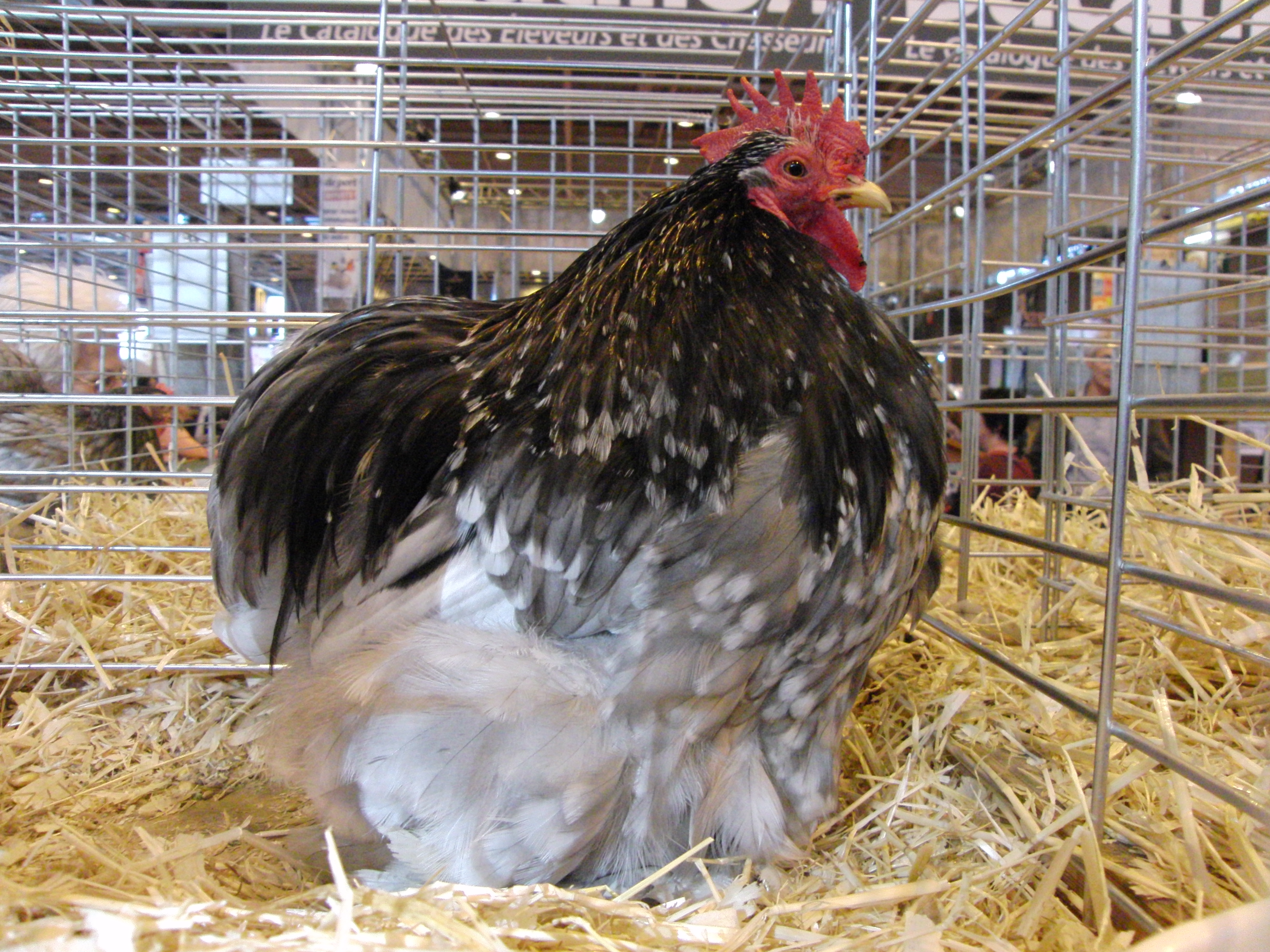 Pekin chicken - Paris International Agricultural Show 2014, France